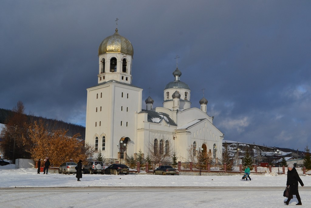 Russia. Baschkortostan